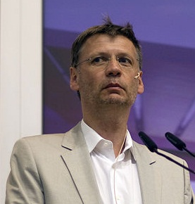 Günther Jauch